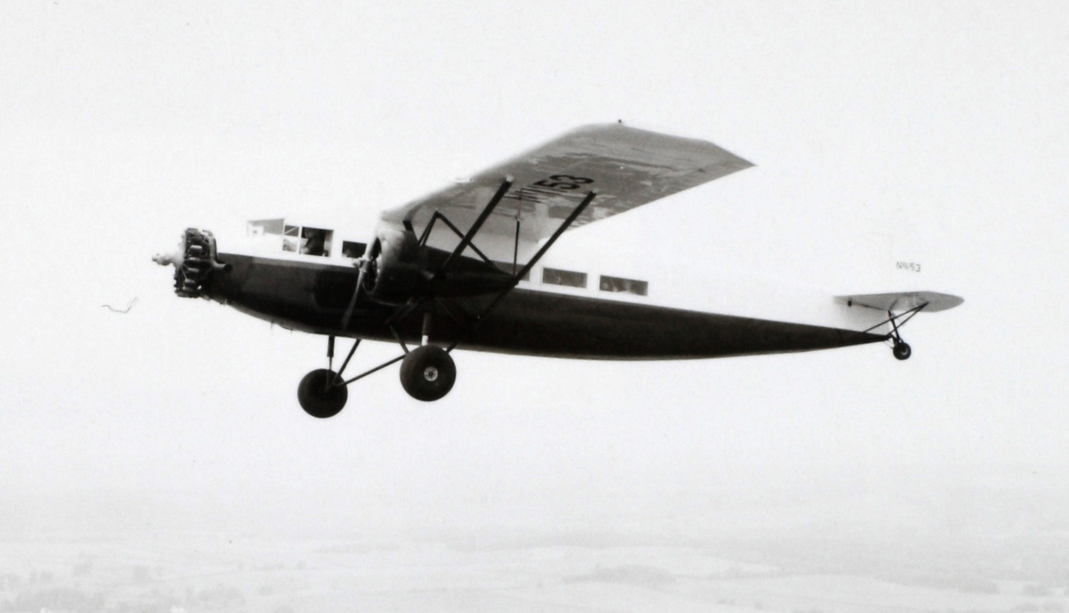 Stinson SM-6000B Airliner in flight.